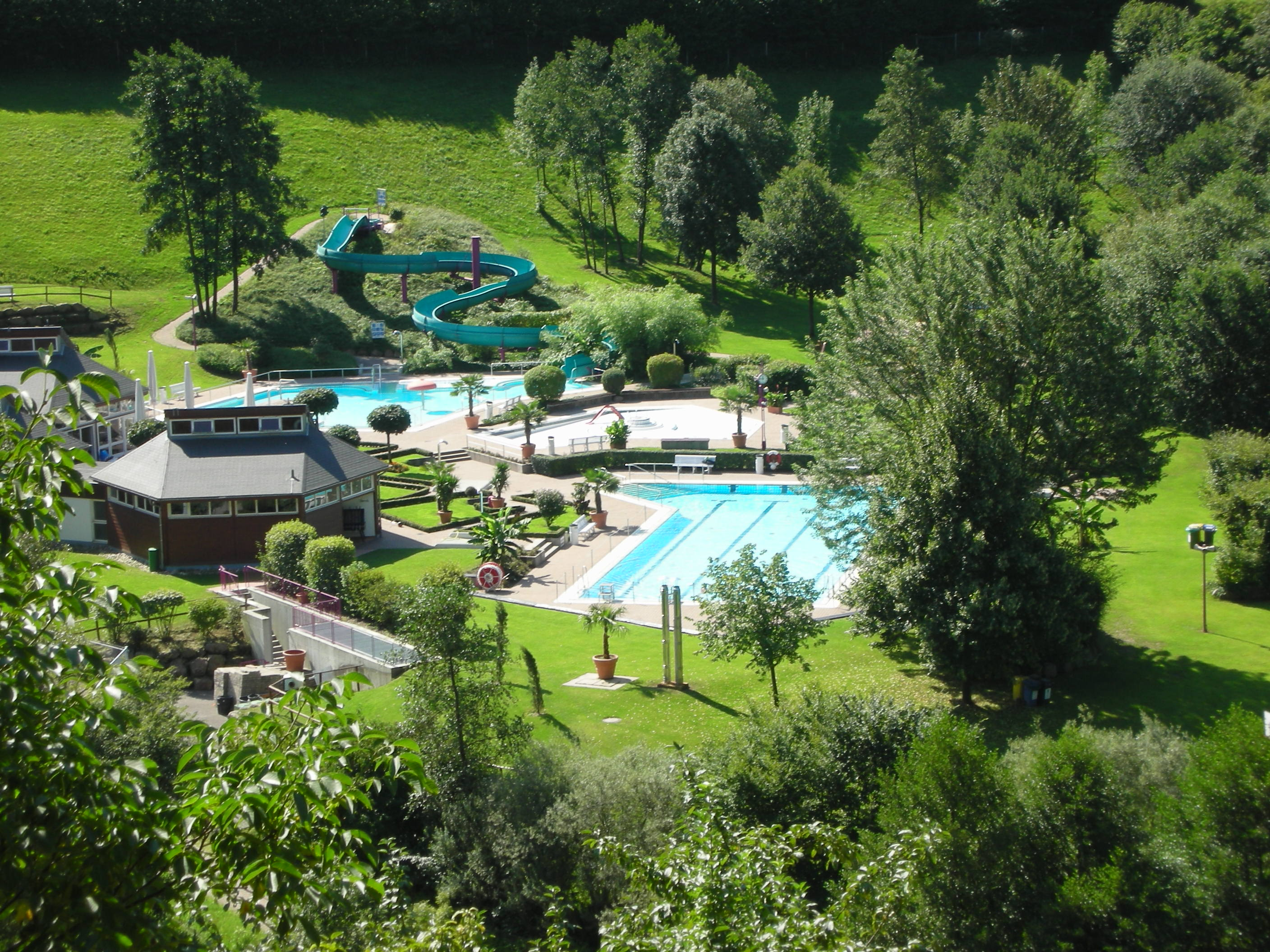 Stadt Oppenau. Blick auf Schwimmbad / city of Oppenau, view on municipal baths.